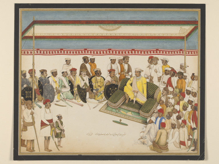 This Company painting depicts Maharaja Ali Jah Daulat Rao Sindhia of Gwalior (1781-1827) seated on cushions under a canopy, surrounded by courtiers, and was painted by Khairullah of Delhi around 1825. The subject was a Maratha chief, the great-nephew and adopted son of Madhoji Sindhia, whom he succeeded to the Raj of Gwalior in March 1794. He was one of the main instigators of the Second Maratha War and was defeated by the British at Assaye in 1803. He reigned for 33 years and was succeeded by Jhanko Rao Sindhia. 'Company paintings' were produced by Indian artists for Europeans living and working in the Indian subcontinent, especially British employees of the East India Company. They represent a fusion of traditional Indian artistic styles with conventions and technical features borrowed from western art. Some Company paintings were specially commissioned, while others were virtually mass-produced and could be purchased in bazaars.